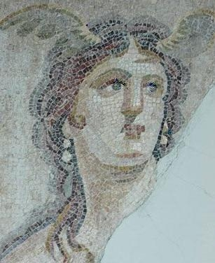 A mosaic of Tethys from the Antakya Museum in Turkey - she was a Greek deity who oversaw the fresh water rivers of the world and the mother and grandmother of thousands of other deities.